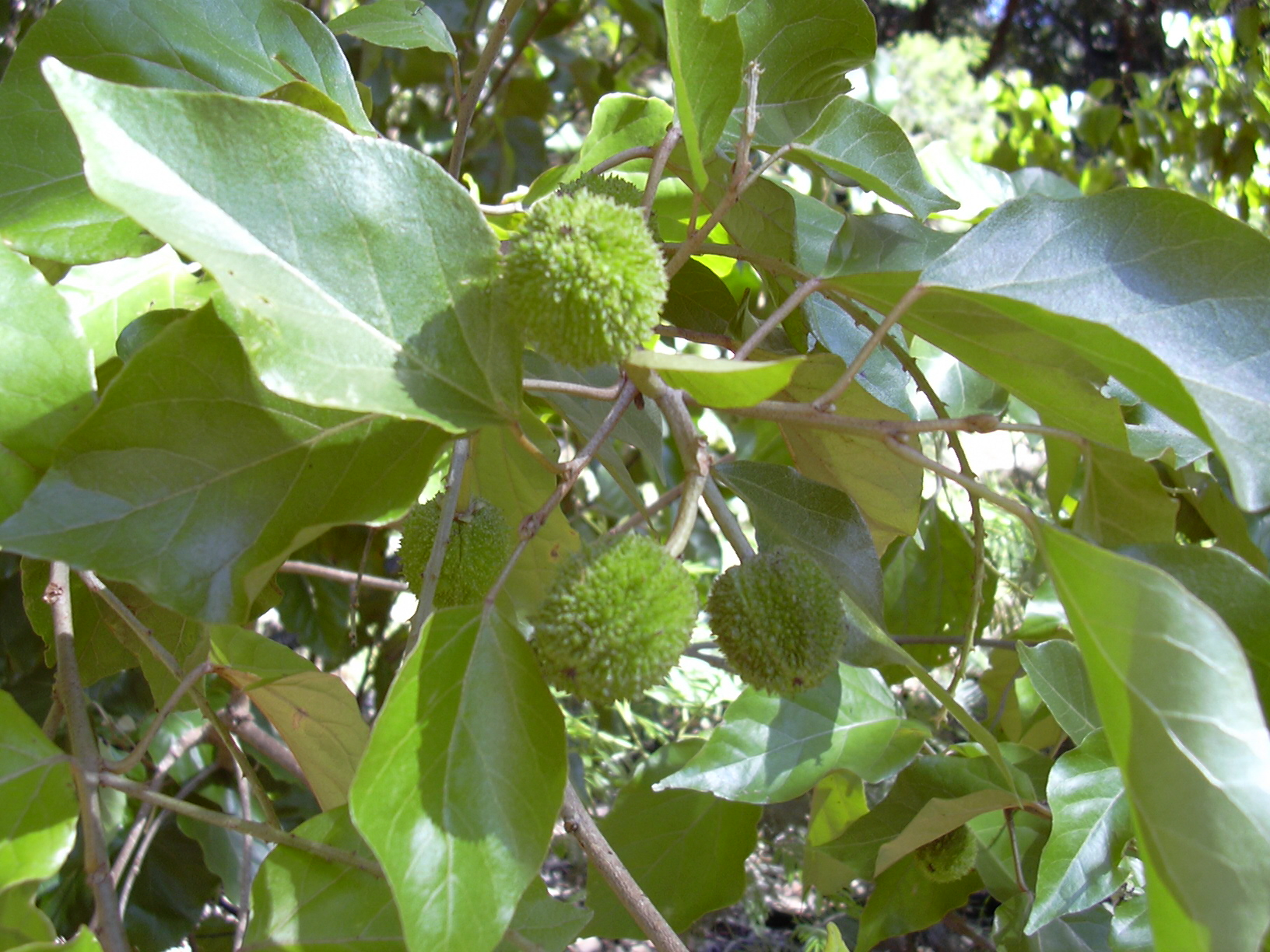 Croton guatemalensis (immature fruit). Location: Maui, Piiholo